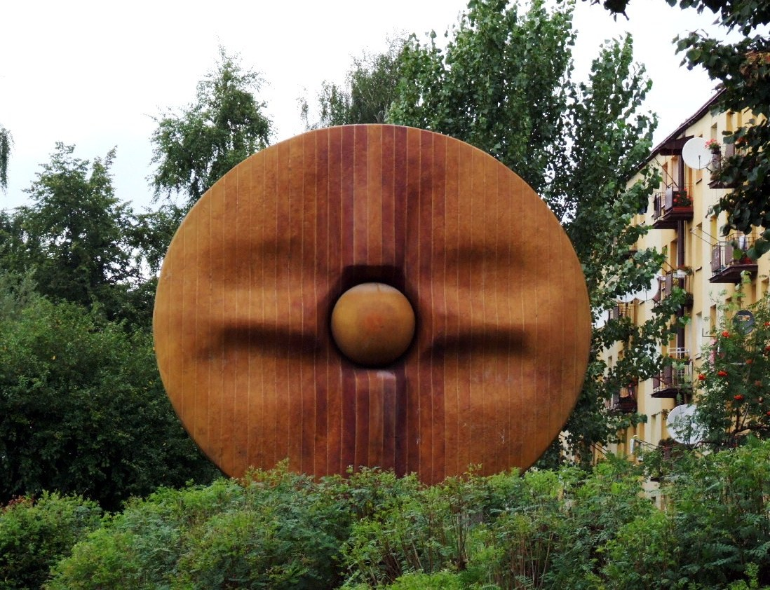 A symbol of Sloneczne (Sunny) district in Ostrowiec Swietokrzyski